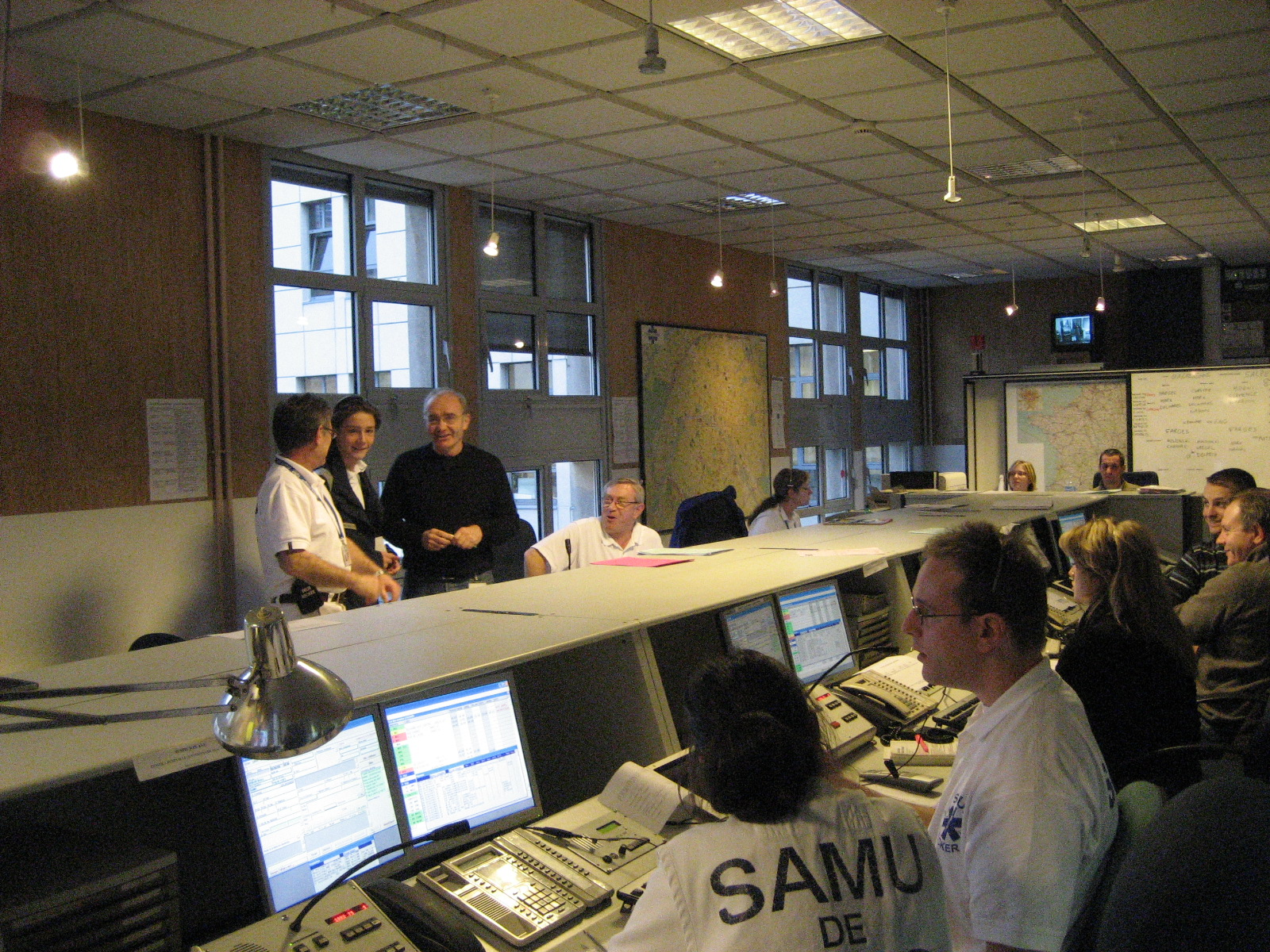 Medical Regulation Room of Samu of Paris